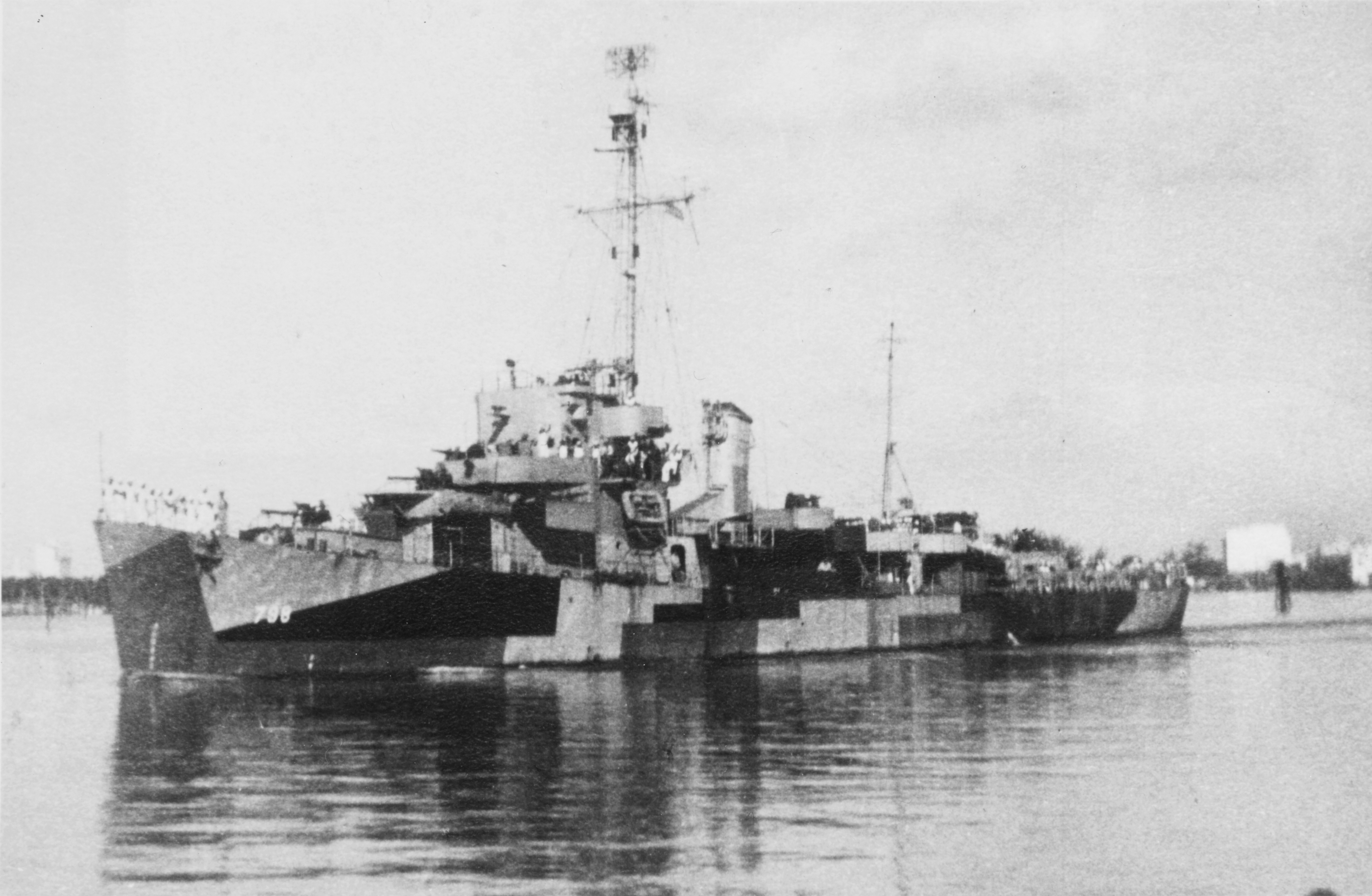 The U.S. Navy destroyer escort USS Varian (DE-798) photographed while she was operating out of Miami, Florida (USA), in the summer of 1945.